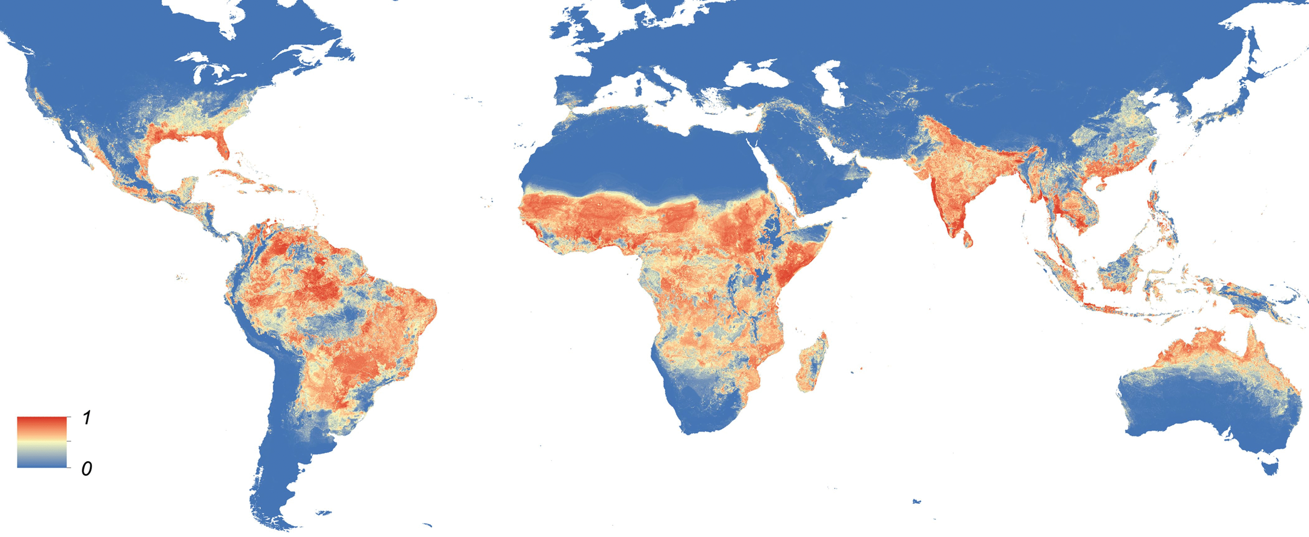 Global map of the predicted distribution of Aedes aegypti in 2015. The map depicts the probability of occurrence (from 0 blue to 1 red) at a spatial resolution of 5 km × 5 km.